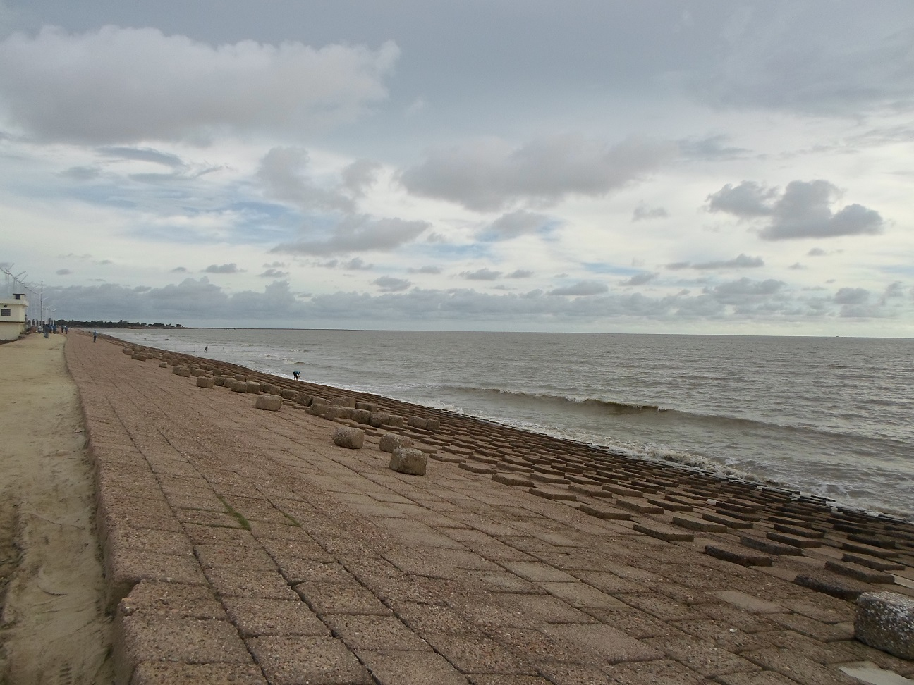 Beautiful Kutubdia